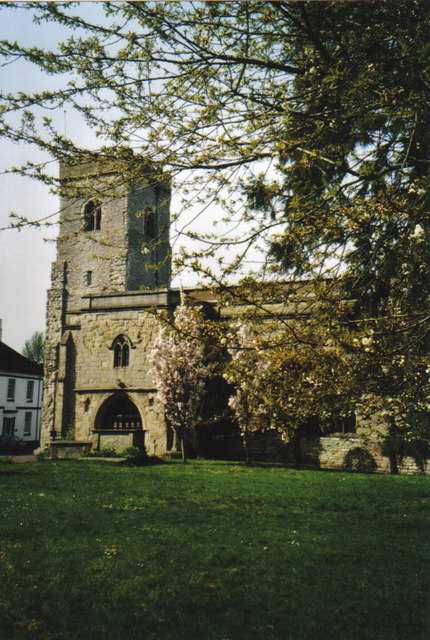 Holy Trinity Church, Much Wenlock This parish church is dedicated to the Holy Trinity. The first church on this site was built in Anglo-Saxon times.The present church dates from 1150 and was built by the cluniac monks from Wenlock priory.